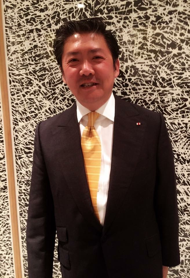 Maestro Long Yu following the Bundesverdienstorden award ceremony